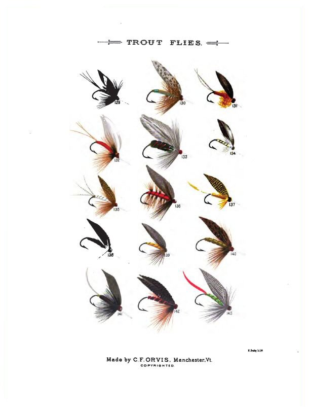 Color Plate P from Favorite Flies and Their Histories - Mary Orvis Marbury, 1892